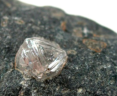 Diamond Locality: Udachnaya Mine, Yakutia, Siberia, Russia Size: miniature, 3.7 x 2.1 x 1.2 cm Diamond on Matrix A Superb gem quality and SHARP diamond crystal in matrix from Russia . The crysatl is a single octohedron with intricately stepped faces. The diamond has been estimated to be just over 1.5 carats. The diamond is gemmy and read-through, absolutely facetable. It measures 5 mm on edge. Although it might seem small, it has wonderful visual impact because of the clarity and perch on matrix. Embedded perhaps 50% in the matrix, so you know it is real. What is more, you can look right through the diamond to the matrix underneath! Around the diamond is a thin white layer you sometimes see, which indicates not glue but rather an alteration in the surrounding rock due to the chemical heat of formation of the crystal and is a good indication of its origins as natural. 3.7 x 2.1 x 1.2 cm